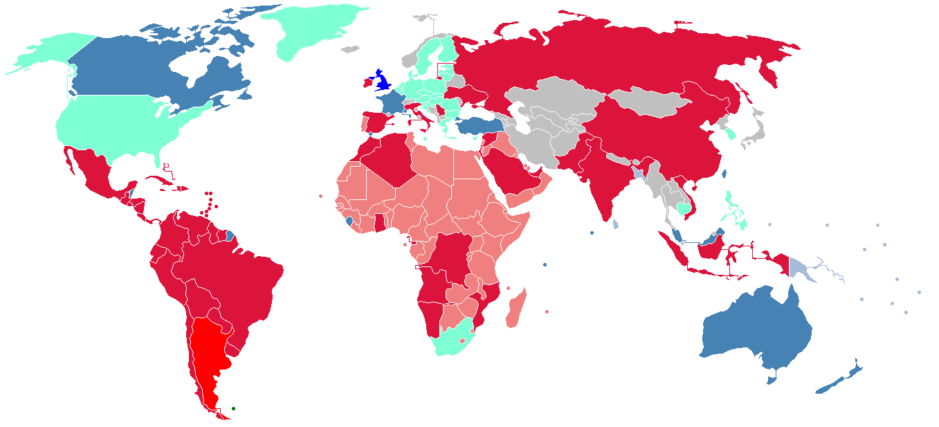 English (en): International position on the sovereignty of the Falklands Falkland Islands The United Kingdom Countries which support the United Kingdom's claim Other members of the Commonwealth of Nations (which support the United Kingdom's claim) Argentina Countries which support Argentina's claim Other members of African Union and Arab League and Portugal (which support Argentina's claim) Neutral countries (USA, South Africa, Vatican City and other members of European Union)